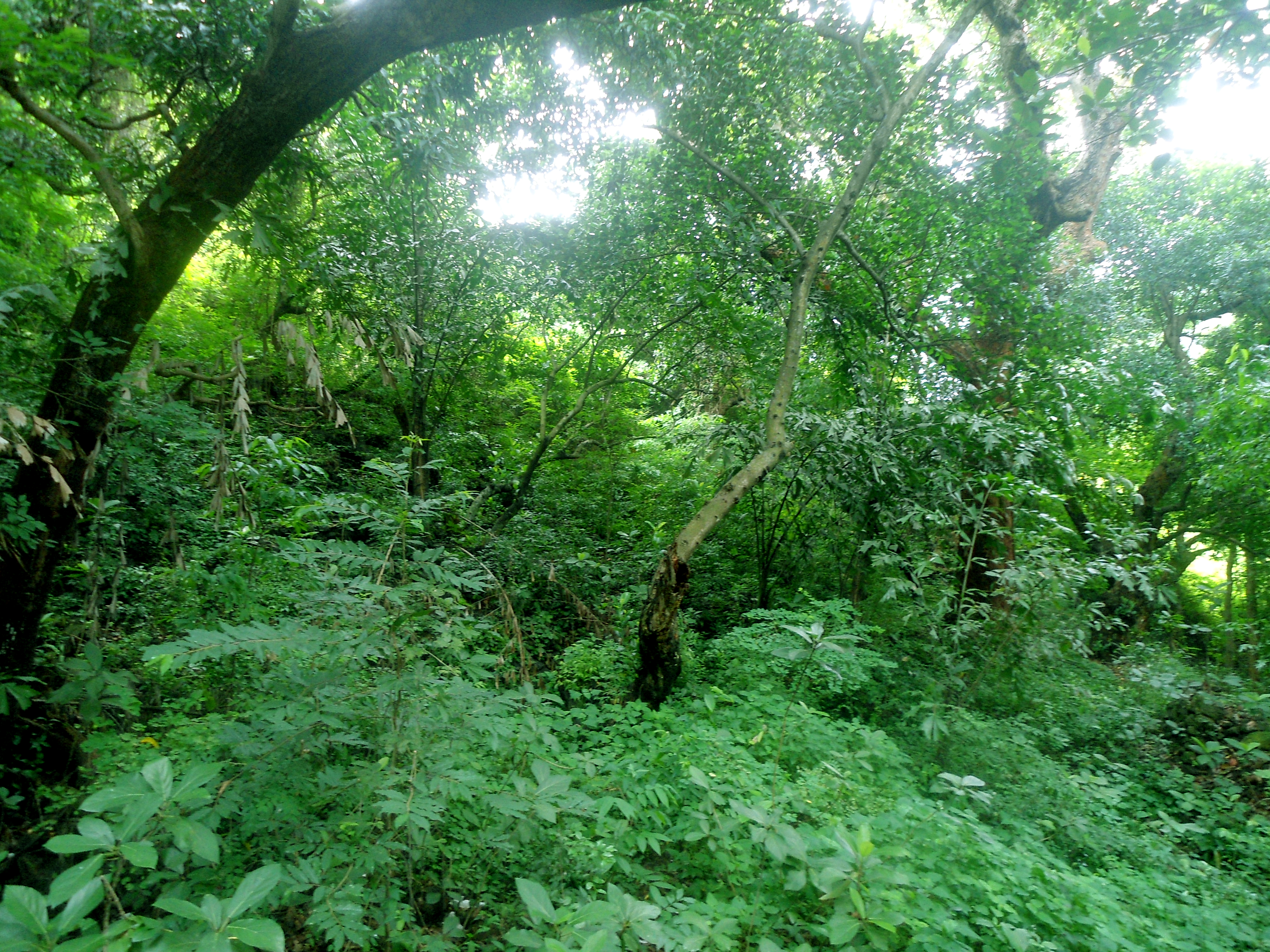 Dry Evergreen Forests during Monsoon along the Simhachalam Hill Range of Eastern Ghats at Madhavadhara, Visakhapatnam